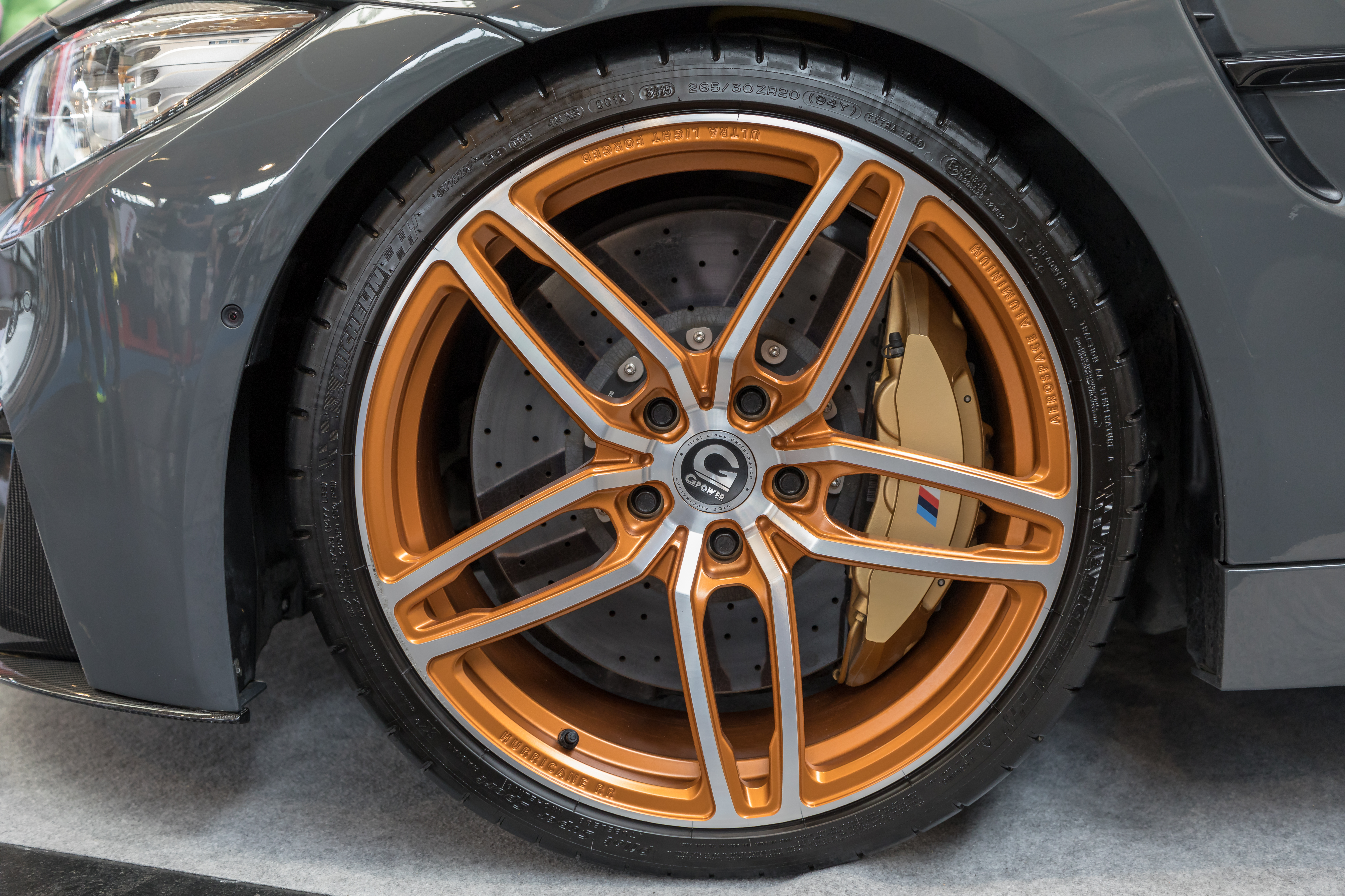 G-Power Hurricane RR forged alloy wheel at Tuning World Bodensee 2018